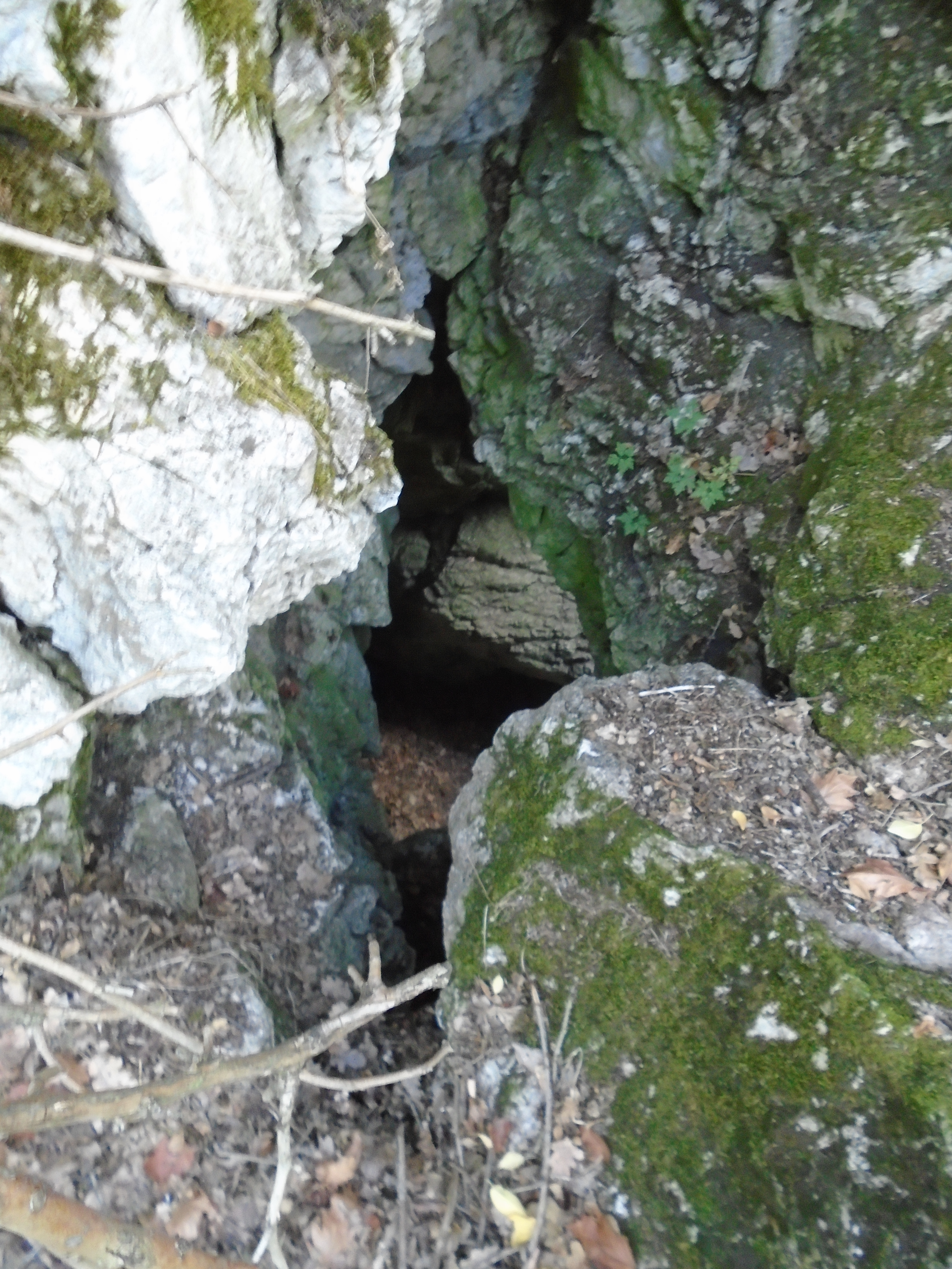 Entrance of Hét Hole.